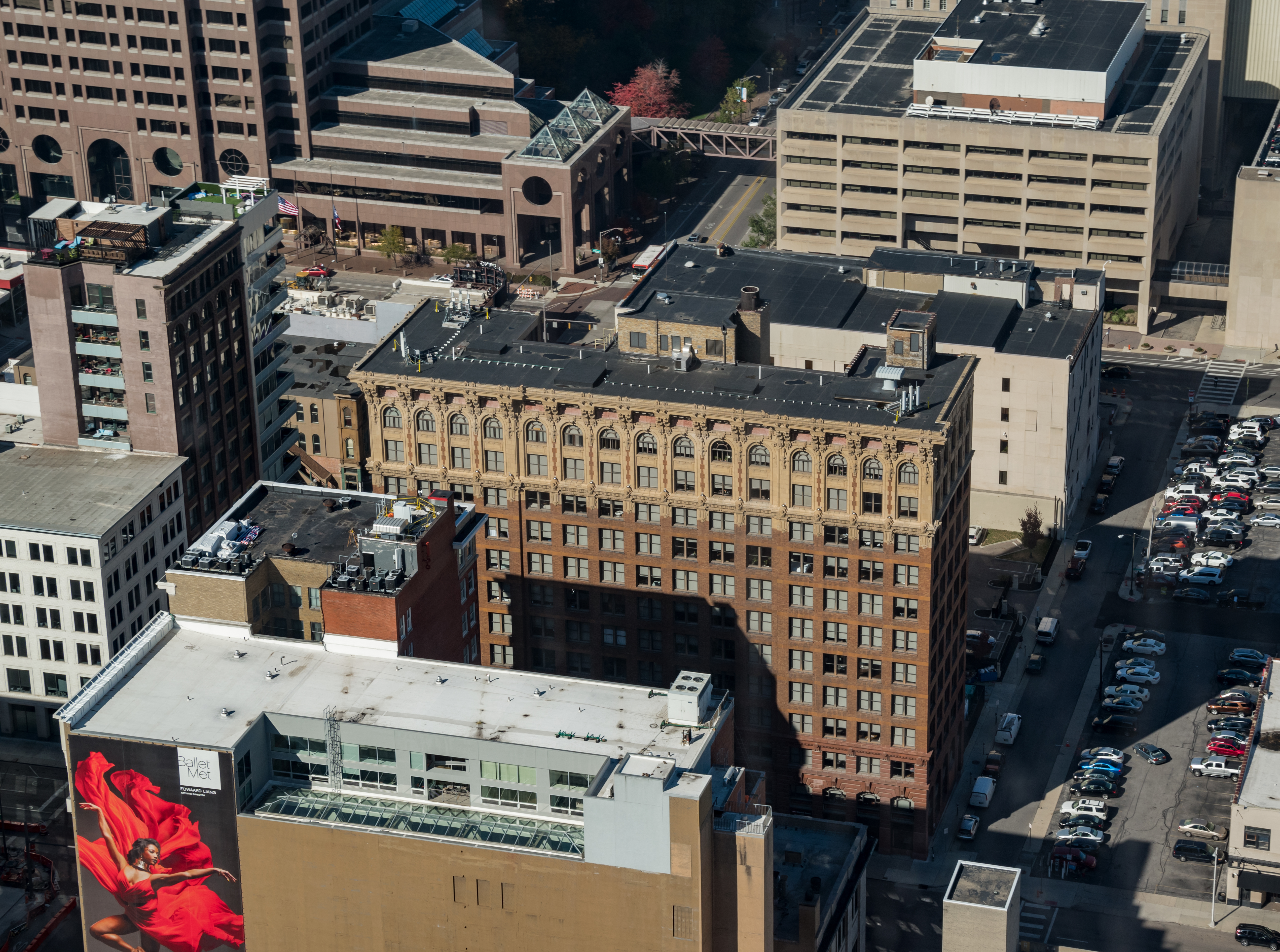 The Atlas Building, built 1905 by Frank Packard, now the Atlas Apartments.